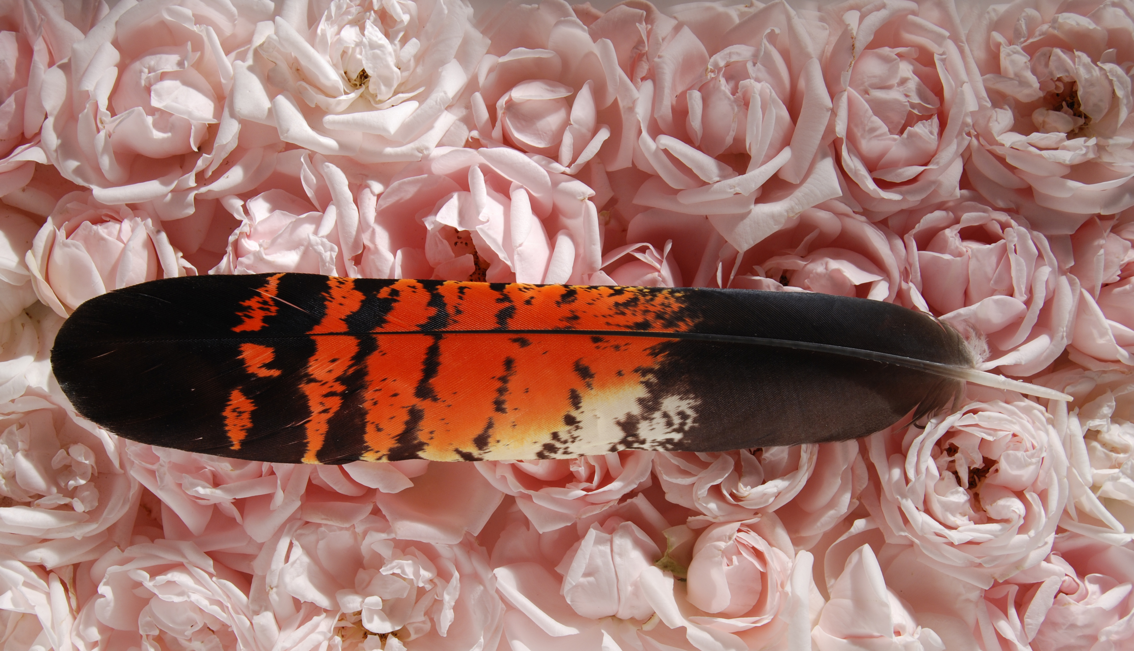 Red tail black Cockatoo Calyptorhynchus banksii female feathers